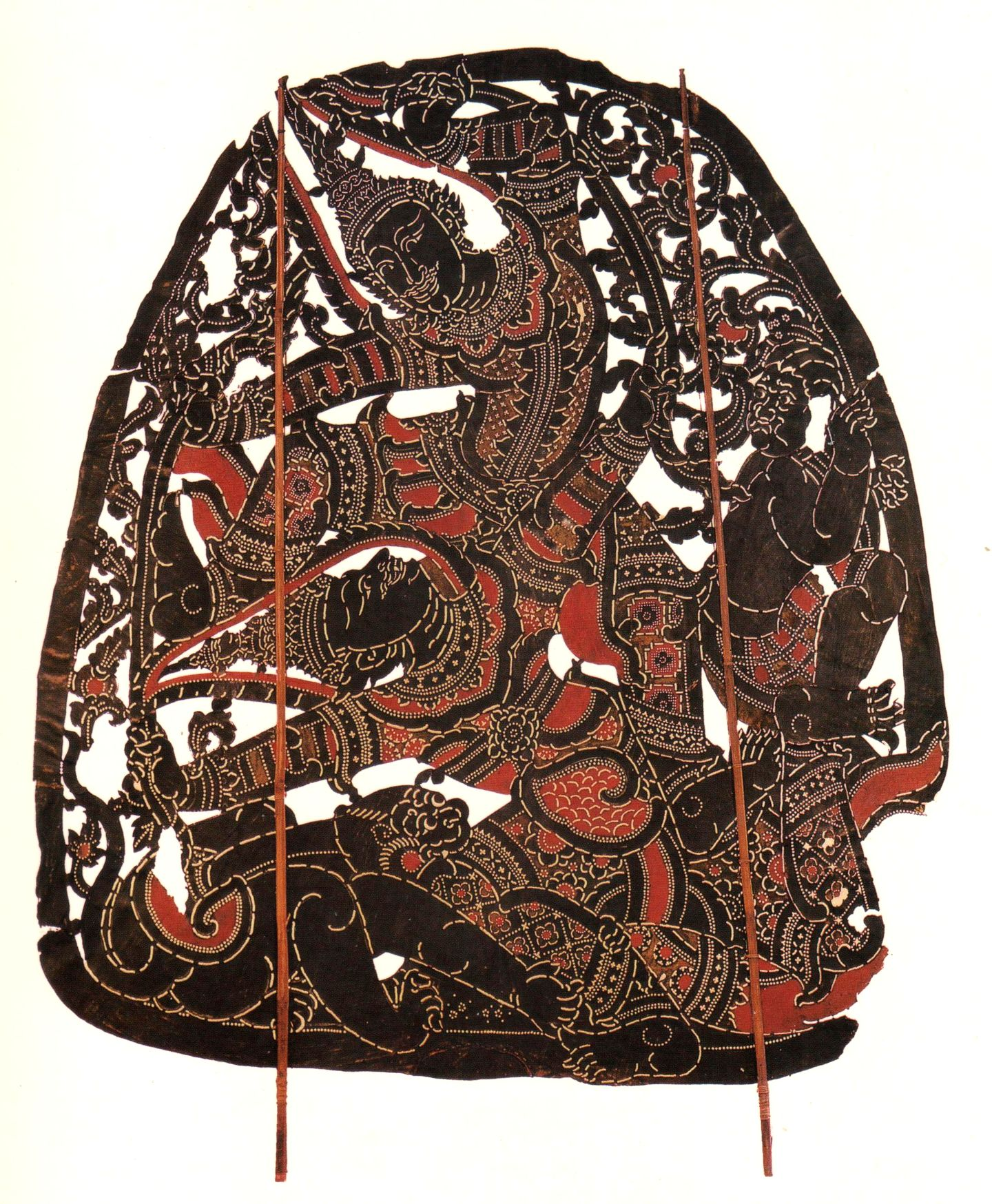 Nang yai, fight between Phra Ram and Thotsakan